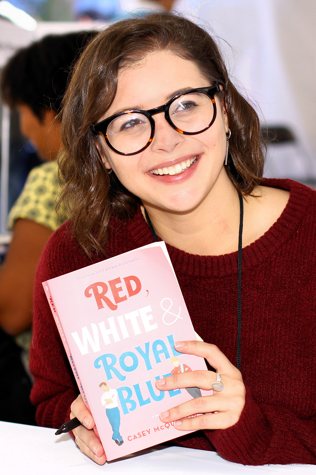 Author Casey McQuiston at the 2019 Texas Book Festival in Austin, Texas, United States.